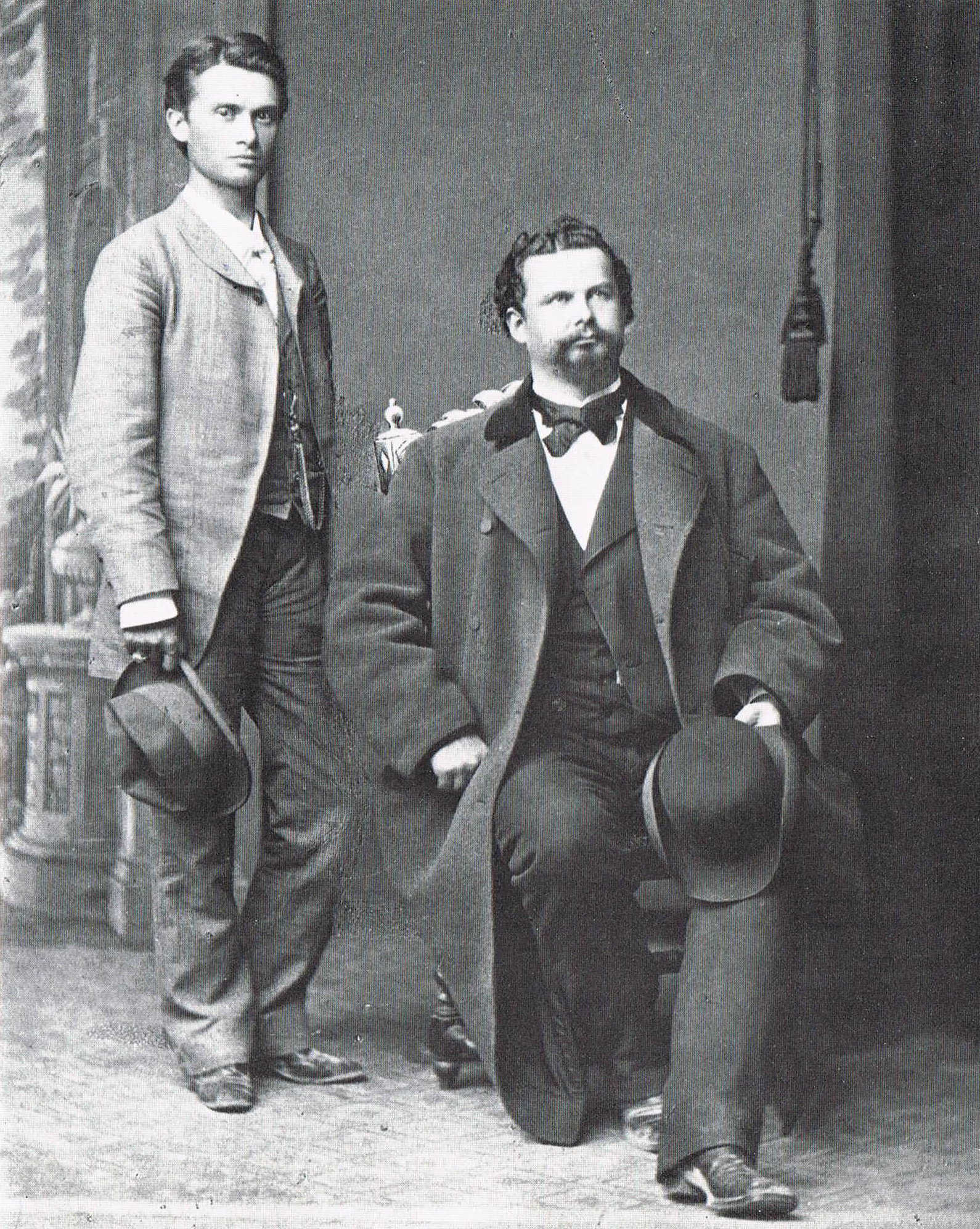 Ludwig II of Bavaria and Josef Kainz in Lucerne, summer 1881